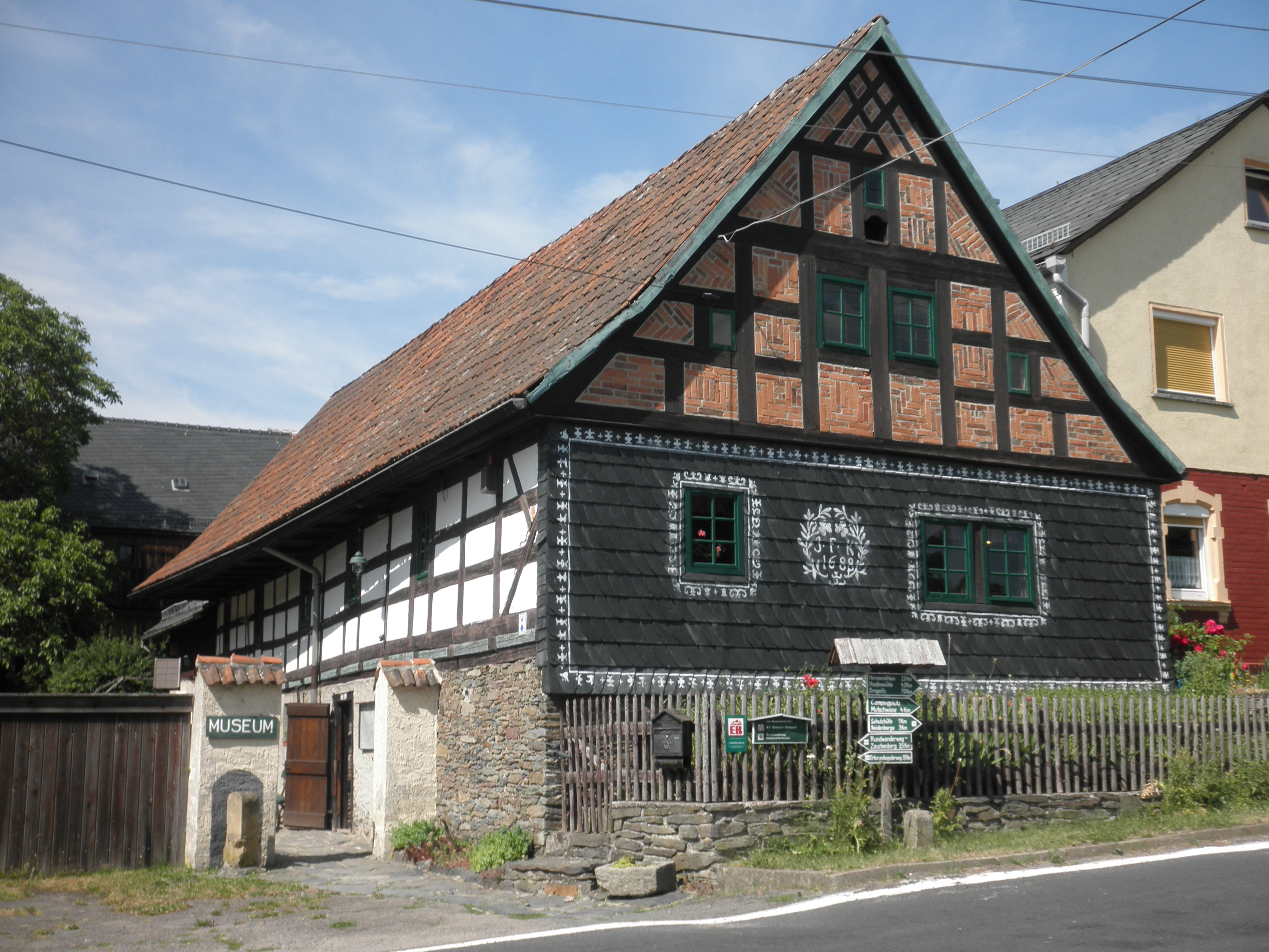 Museum in Reitzengeschwenda in Thuringia